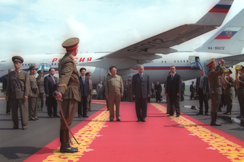 PYONGYANG. Vladimir Putin with North Korean leader Kim Jong-il during a welcoming ceremony at Sunan international airport.